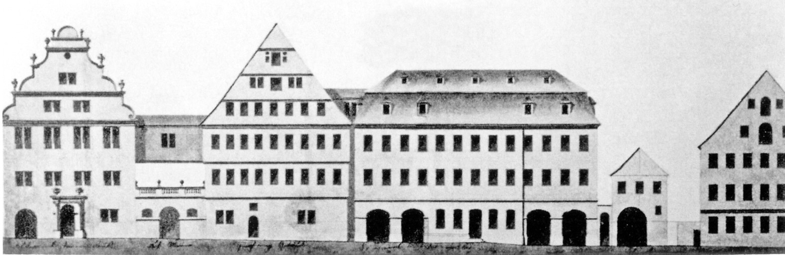 Front elevation of the houses of the estates of ancient Württemberg in Stuttgart, in